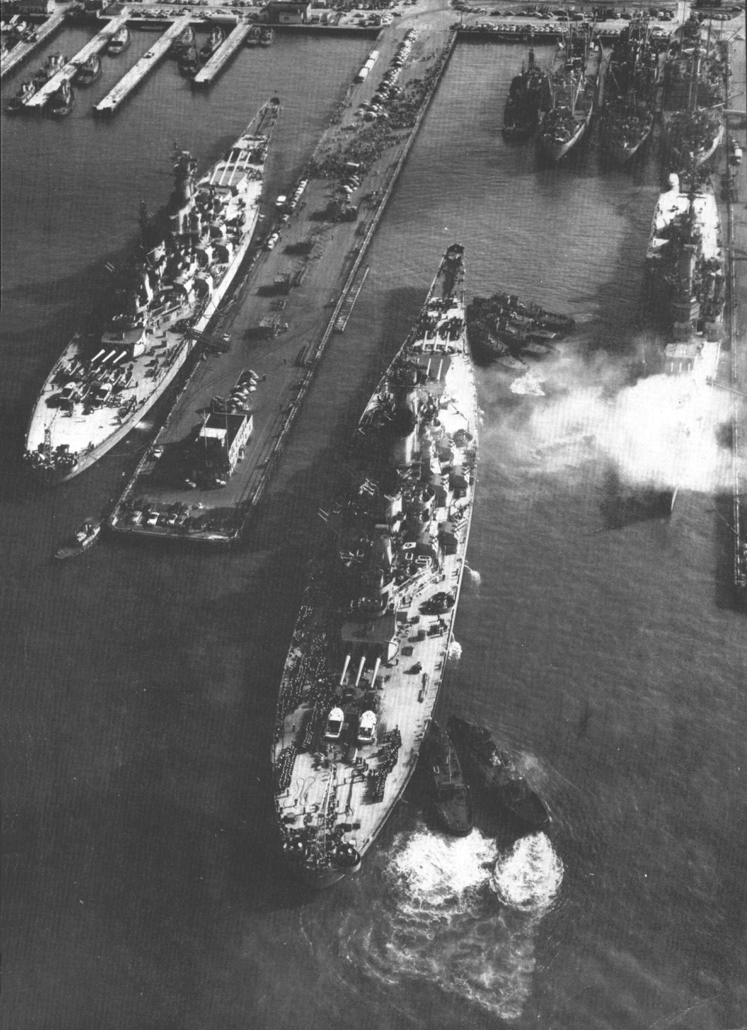 The U.S. Navy battleship USS New Jersey (BB-62) arriving at Norfolk Naval Base, Virginia (USA). USS Missouri (BB-63) is visible in the background. A Des Moines-class heavy cruiser is to the starboard of New Jersey.